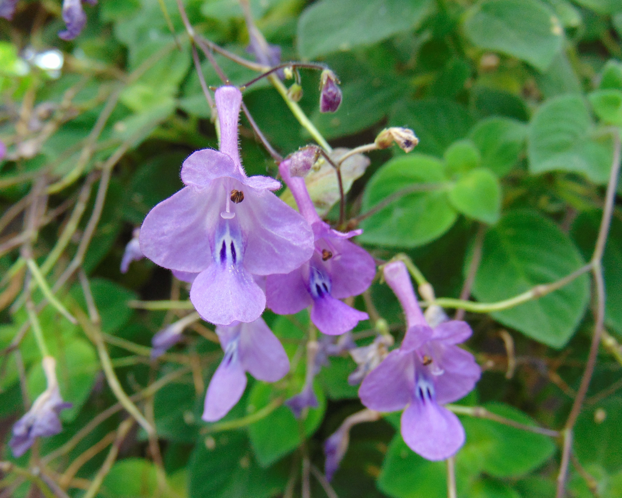 Jardin Botanique de Montréal, Streptocarpus stomandrus